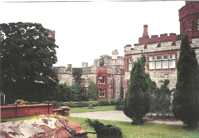 Ruthin Castle. In 1826, Ruthin Castle was built over the old Castell Coch yn yr Gwernfor which had been built in 1277 and modified throughout the centuries. The castle was rebuilt and extended in 1849-52. Today it is a hotel.